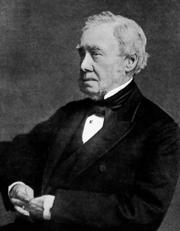 John Galloway, pictured prior to 1894, the year of his death